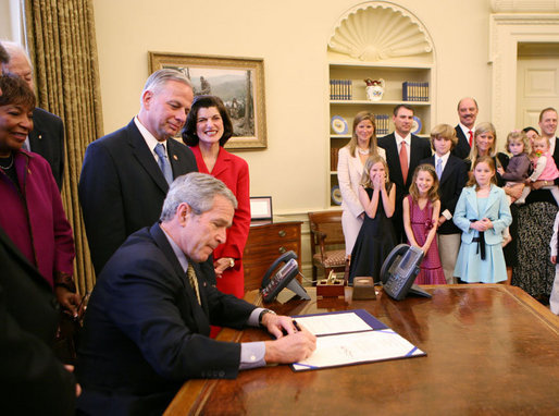 President George W. Bush, joined by the family of former President Lyndon Baines Johnson, signs H.R. 584 designating the U.S. Department of Education in Washington, D.C., as the Lyndon Baines Johnson Federal Building, Friday, March 23, 2007 in the Oval Office.